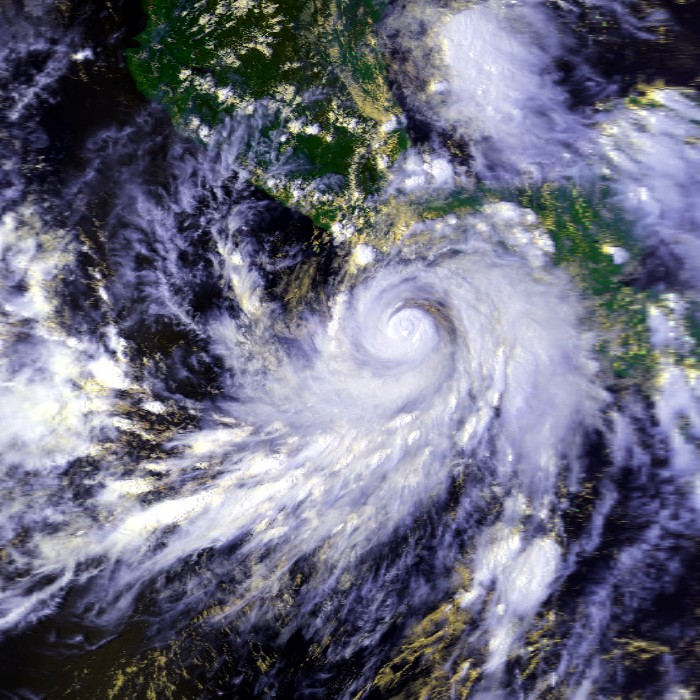 This image shows Hurricane Pauline near peak intensity on October 7. The storm's maximum sustained winds at the time were about 125 mph. This image was produced from data from NOAA-14, provided by NOAA.